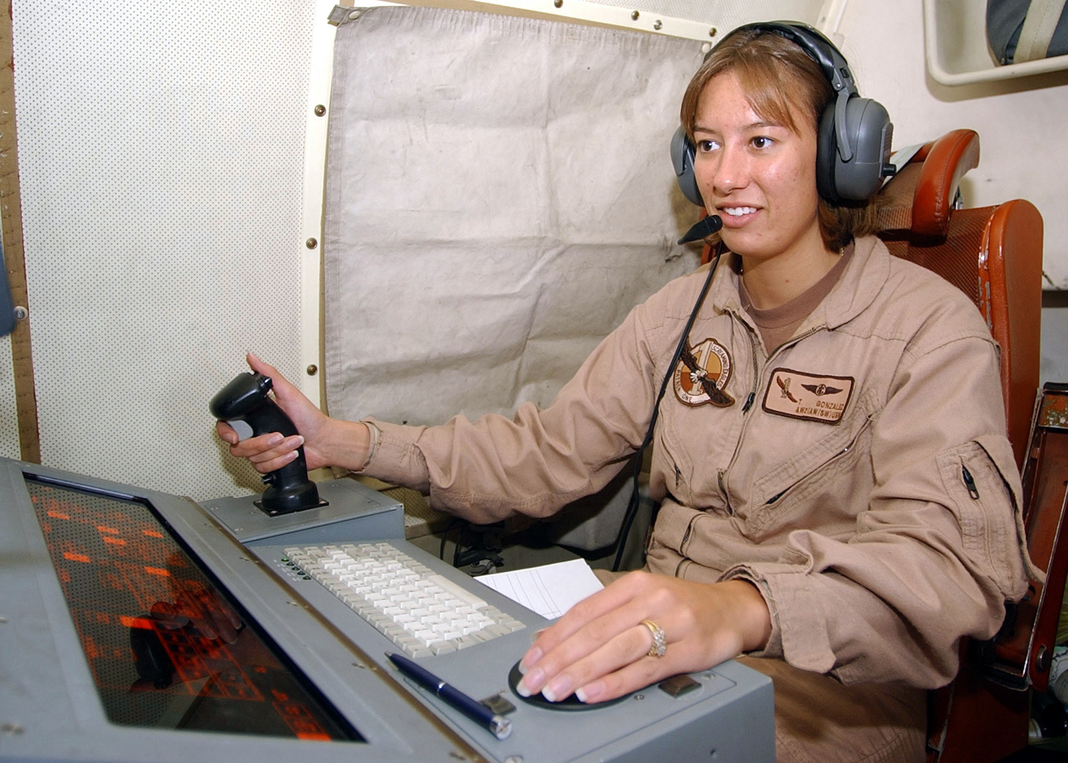 Central Command Area of Operation (Nov. 1, 2002) -- Aviation Anti-Submarine Warfare Operator 2nd Class Tammy Gonzalez assigned to the "Screaming Eagles" of Patrol Squadron One (VP-1) operates the Advanced Imaging Multi-spectral Sensor (AIMS) aboard a P-3C “Orion” during a routine mission. The P-3C “Orion” is a land-based, long-range, anti-submarine warfare (ASW) and reconnaissance patrol aircraft. VP-1 is homeported at Whidbey Island, Wash., and is on a regularly scheduled six-month deployment, conducting missions in support of Operation Enduring Freedom. U.S. Navy photo by Photographer’s Mate 2nd Class Michael Sandberg. (RELEASED)